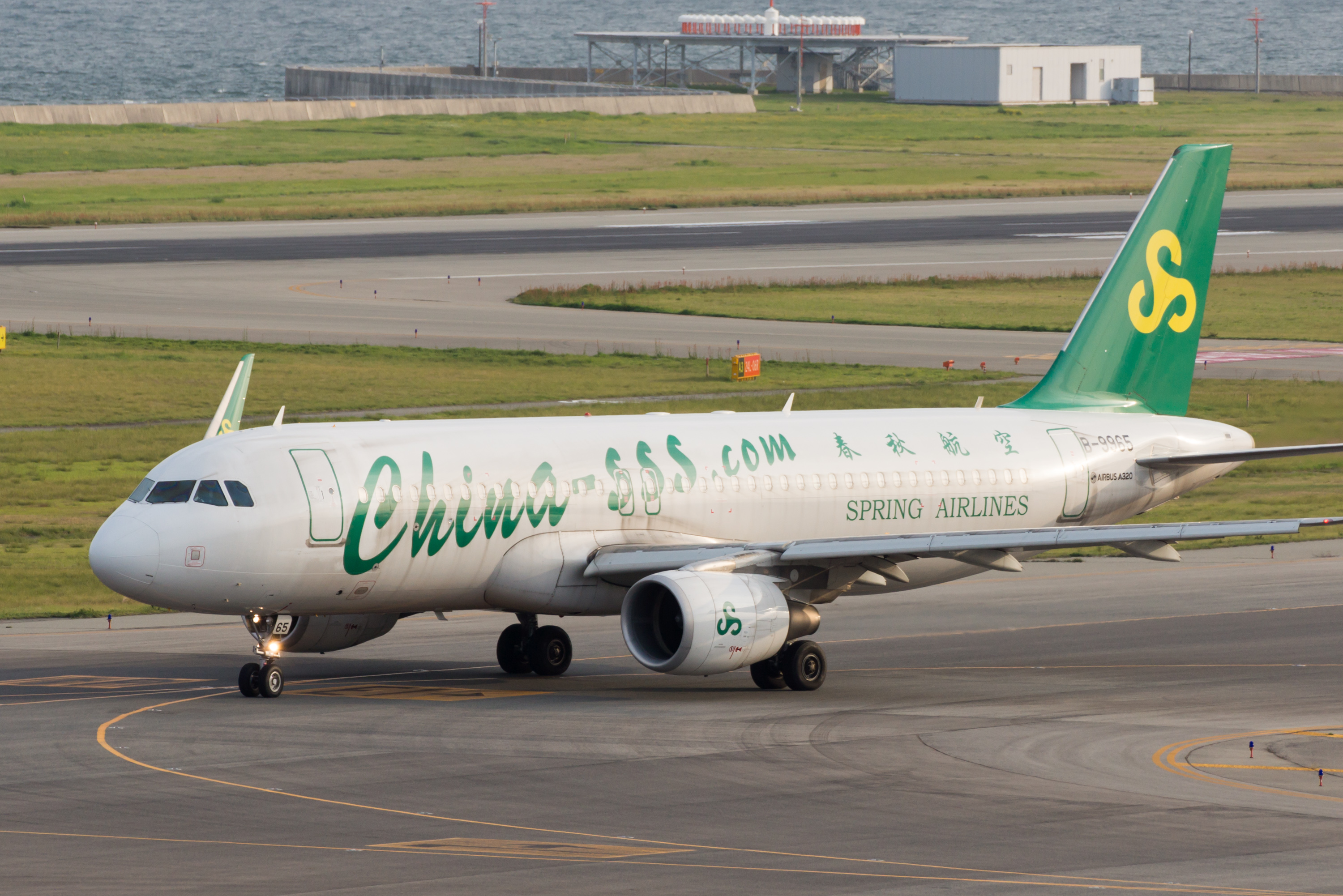 Spring Airlines Airbus A320-214